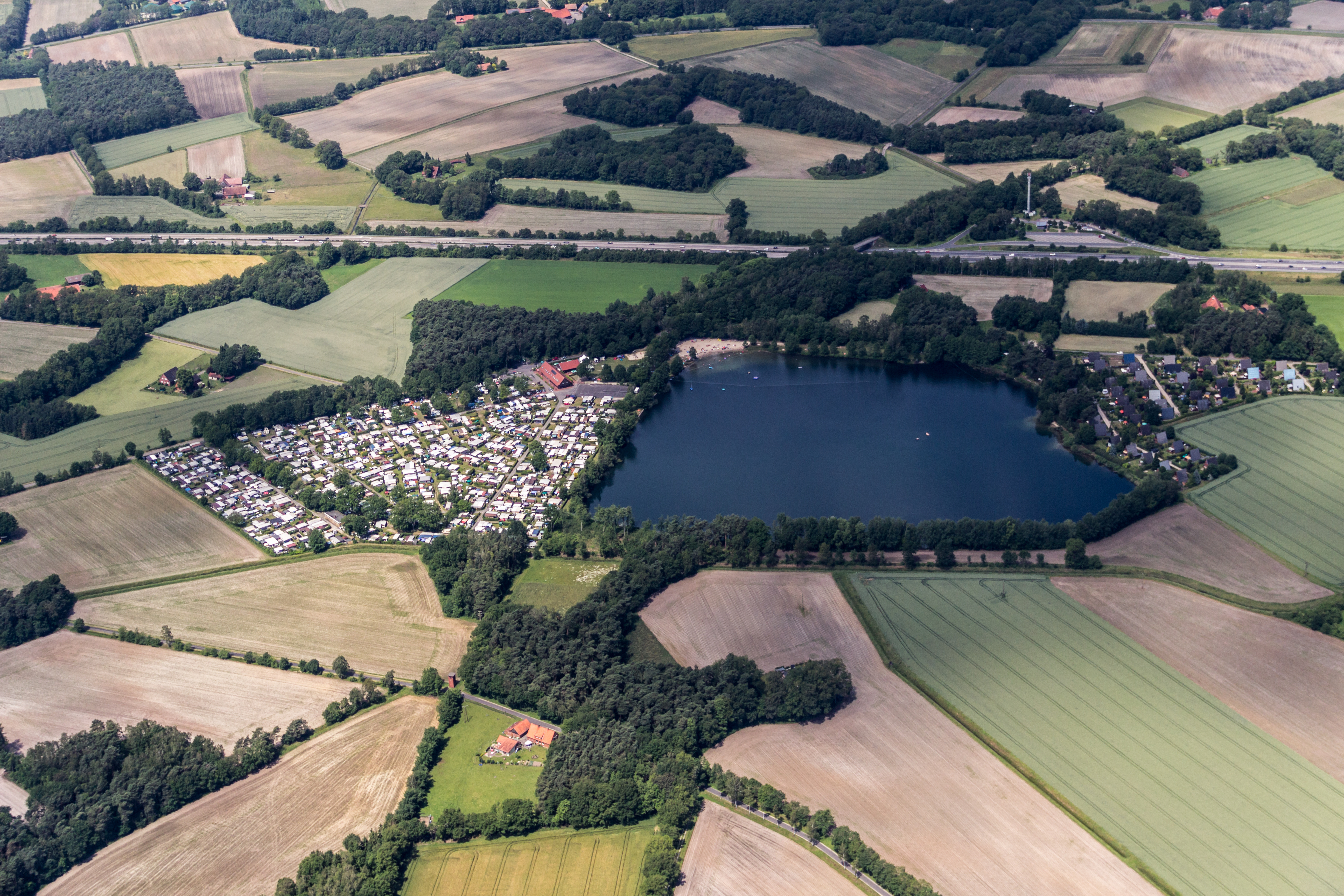 Buddenkuhle, Ladbergen, North Rhine-Westphalia, Germany